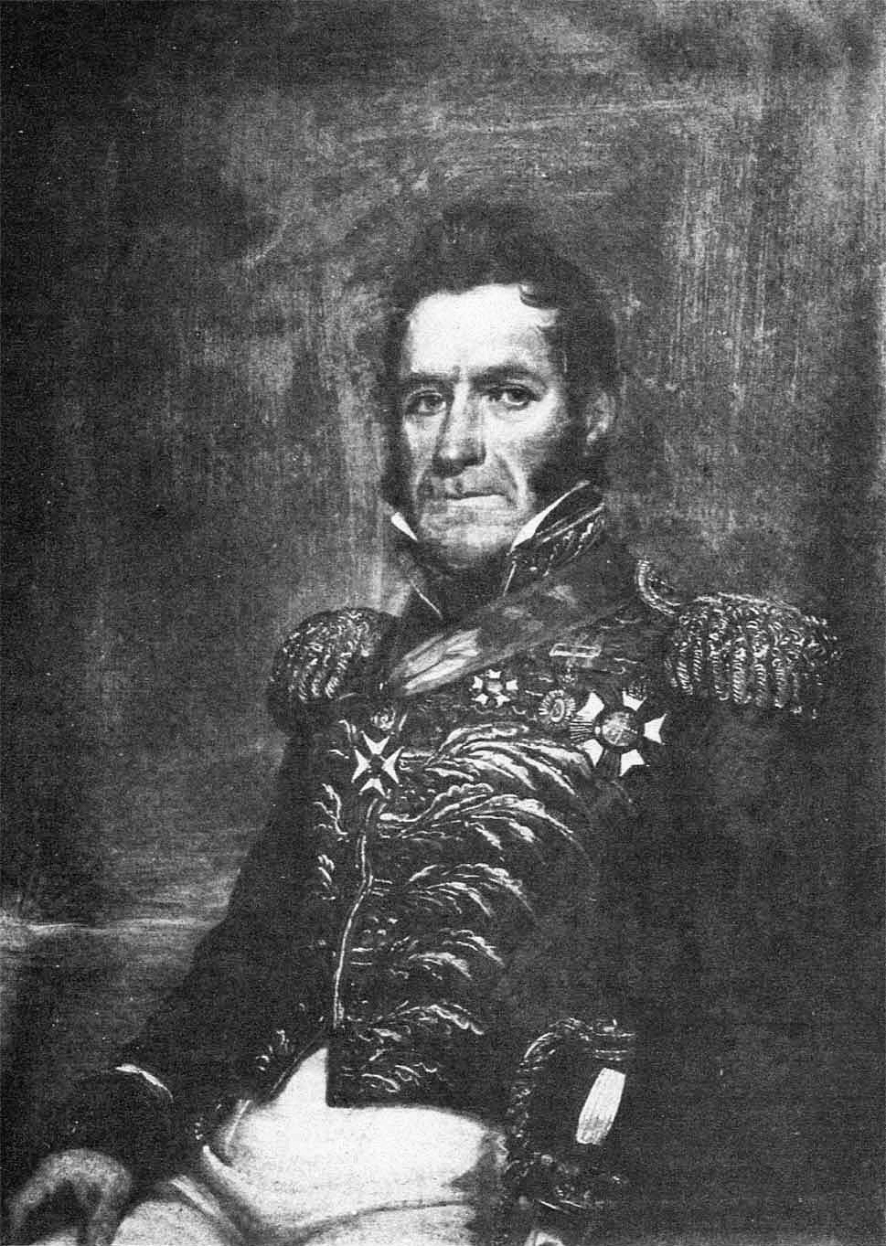 David Jewett, American-born who fought for Brazil in its war of independence.